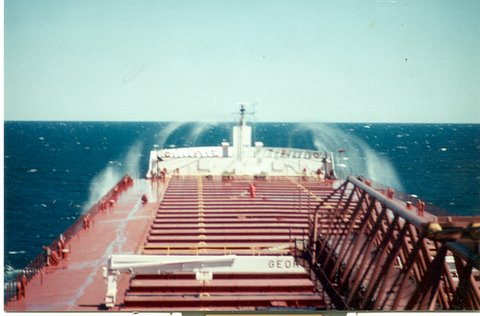 M/V George A. Stinson (now American Spirit) making way in Lake Huron.